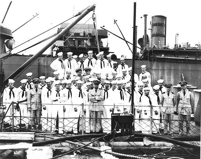 Crew of PC 552